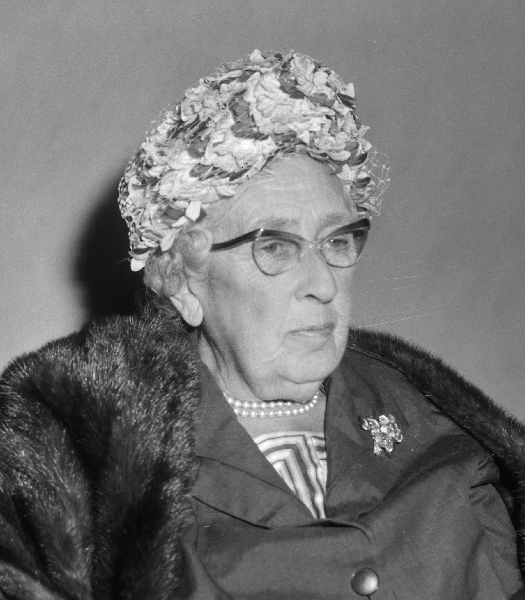 Photograph of the English novelist Agatha Christie (1890–1976), taken at Schiphol Airport, Amsterdam